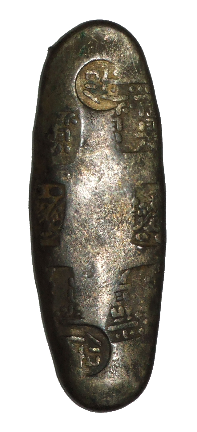 Hozi-chogin(silver)